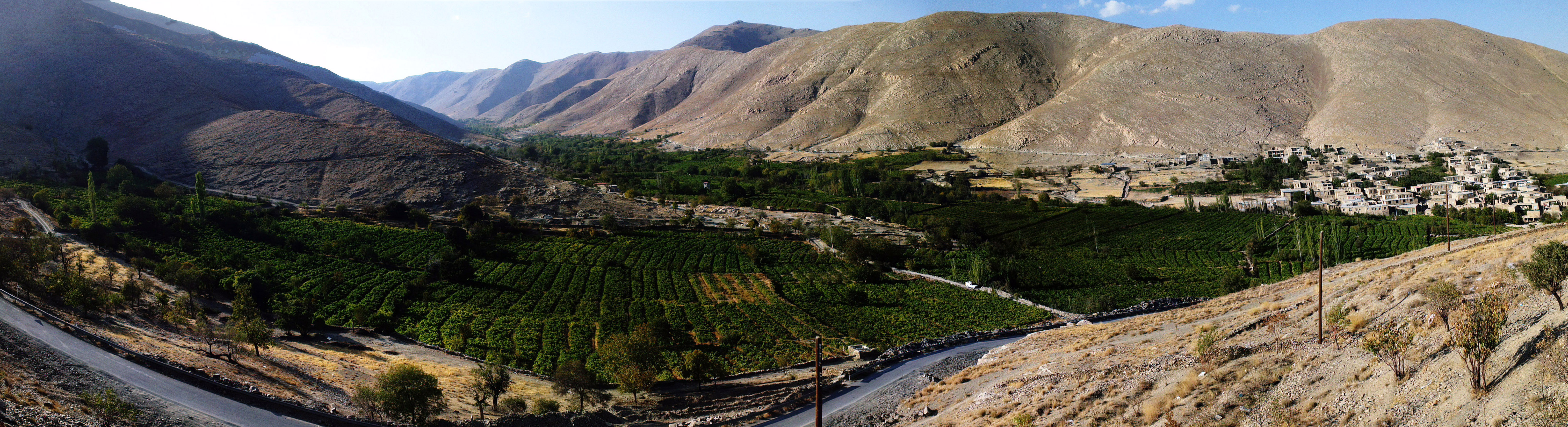 Panorama of vineyards around Hazaveh village